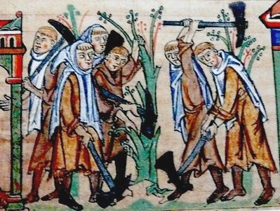 Cistercian monks at work